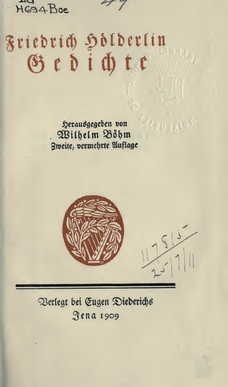 Title page